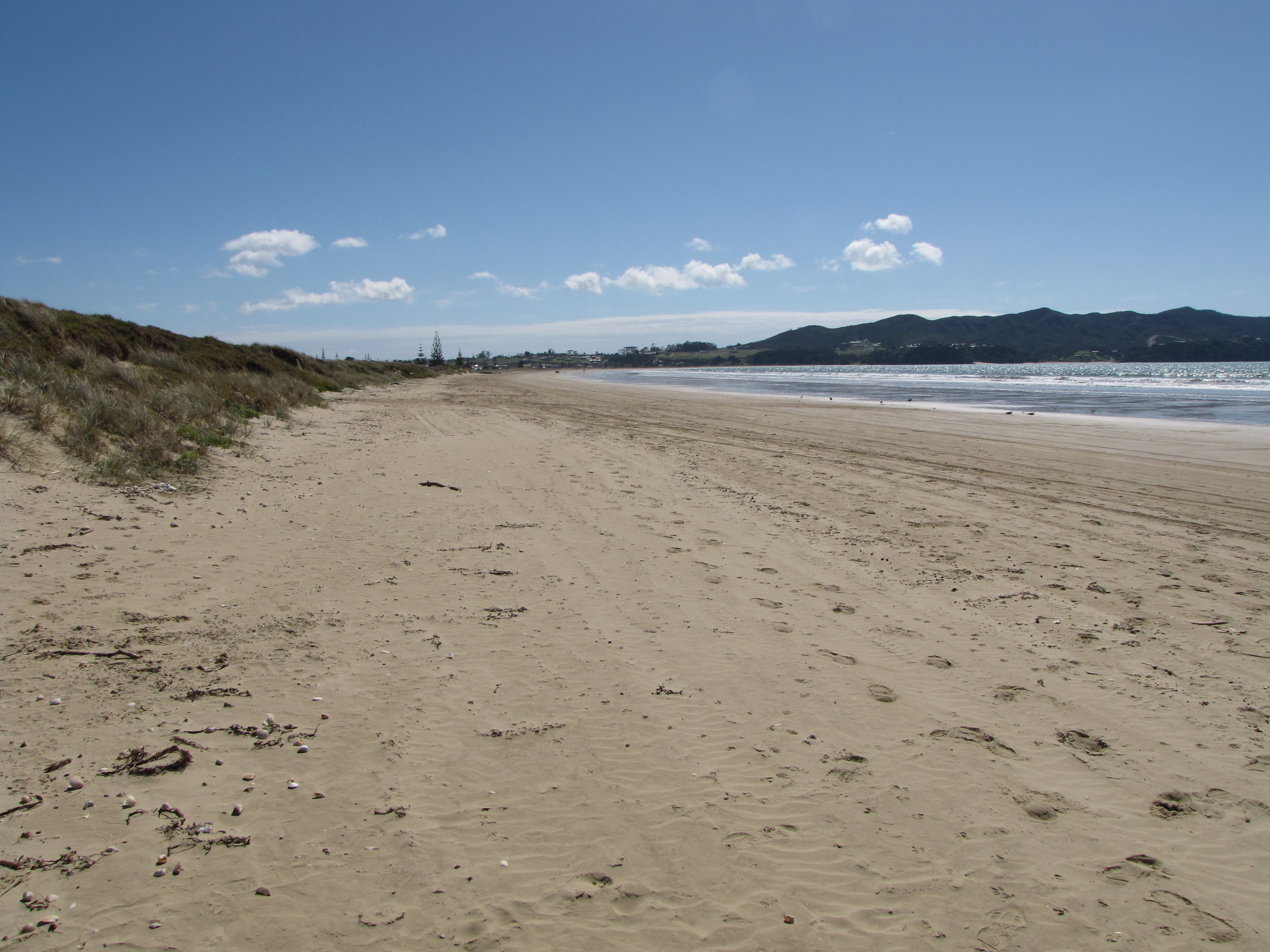 Karikari Peninsula, Northland, New Zealand. Tokorau Beach is on the east side of the peninsula. This photo is looking north, towards Whatuwhiwhi.